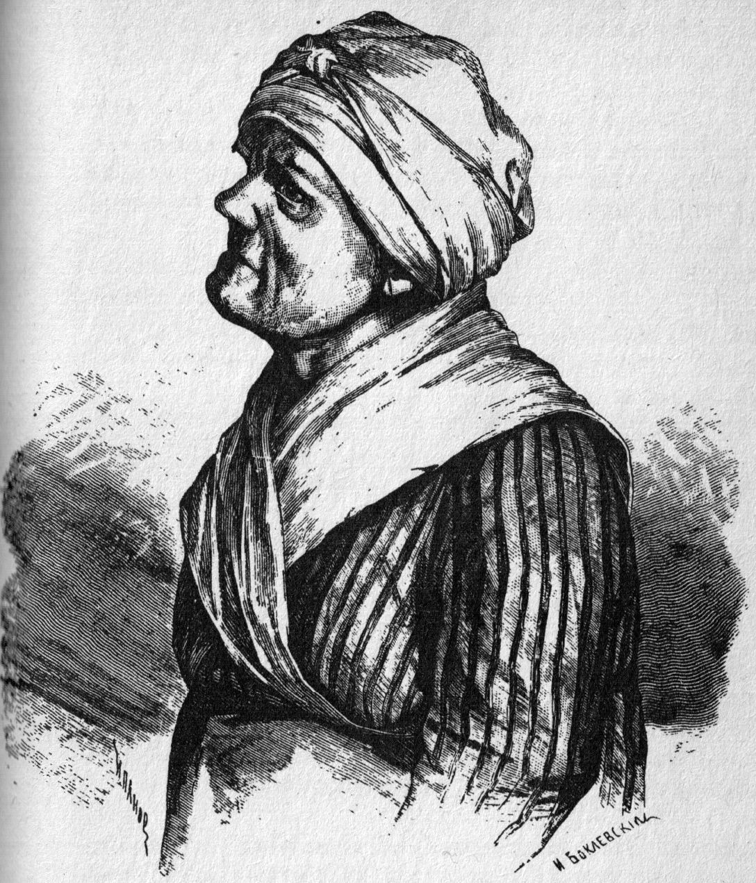 Fetinia. Illustration for Nikolai Gogol's Dead Souls.